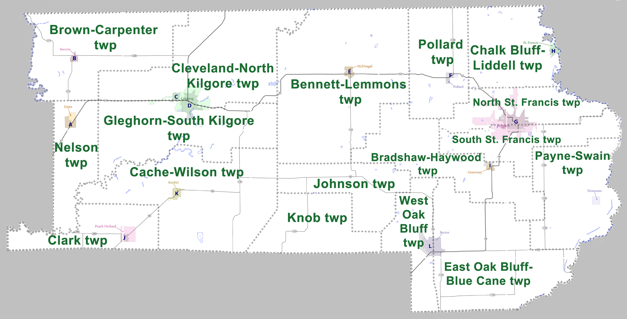 Large map showing townships in Clay County, Arkansas. Modified from US census map (for 2010 census) for Clay County, Arkansas